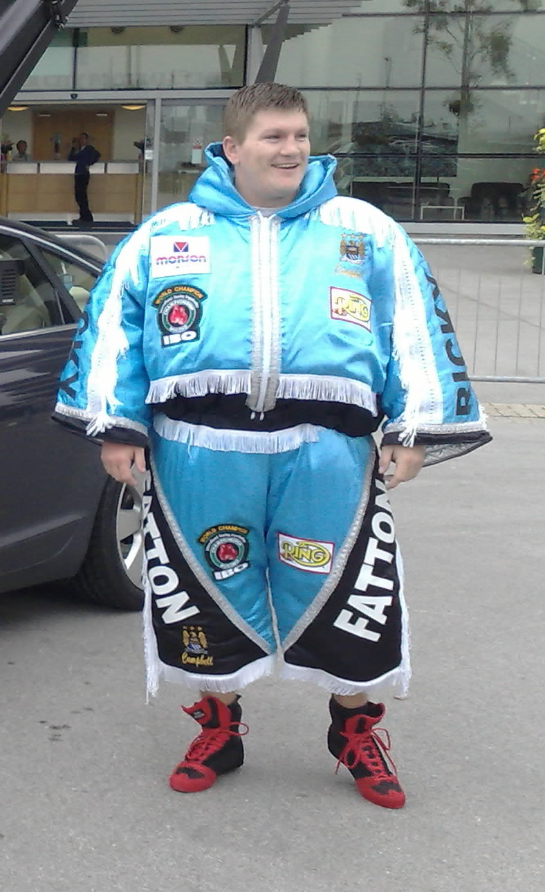 Ricky Hatton outside Manchester City Football Club, in his 'Ricky Fatton' suit.